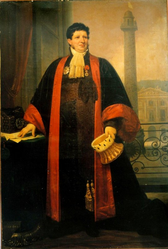 Portrait of Joseph Marie Portalis (1778-1858), French diplomat and statesman, as vice-president of French Supreme Court